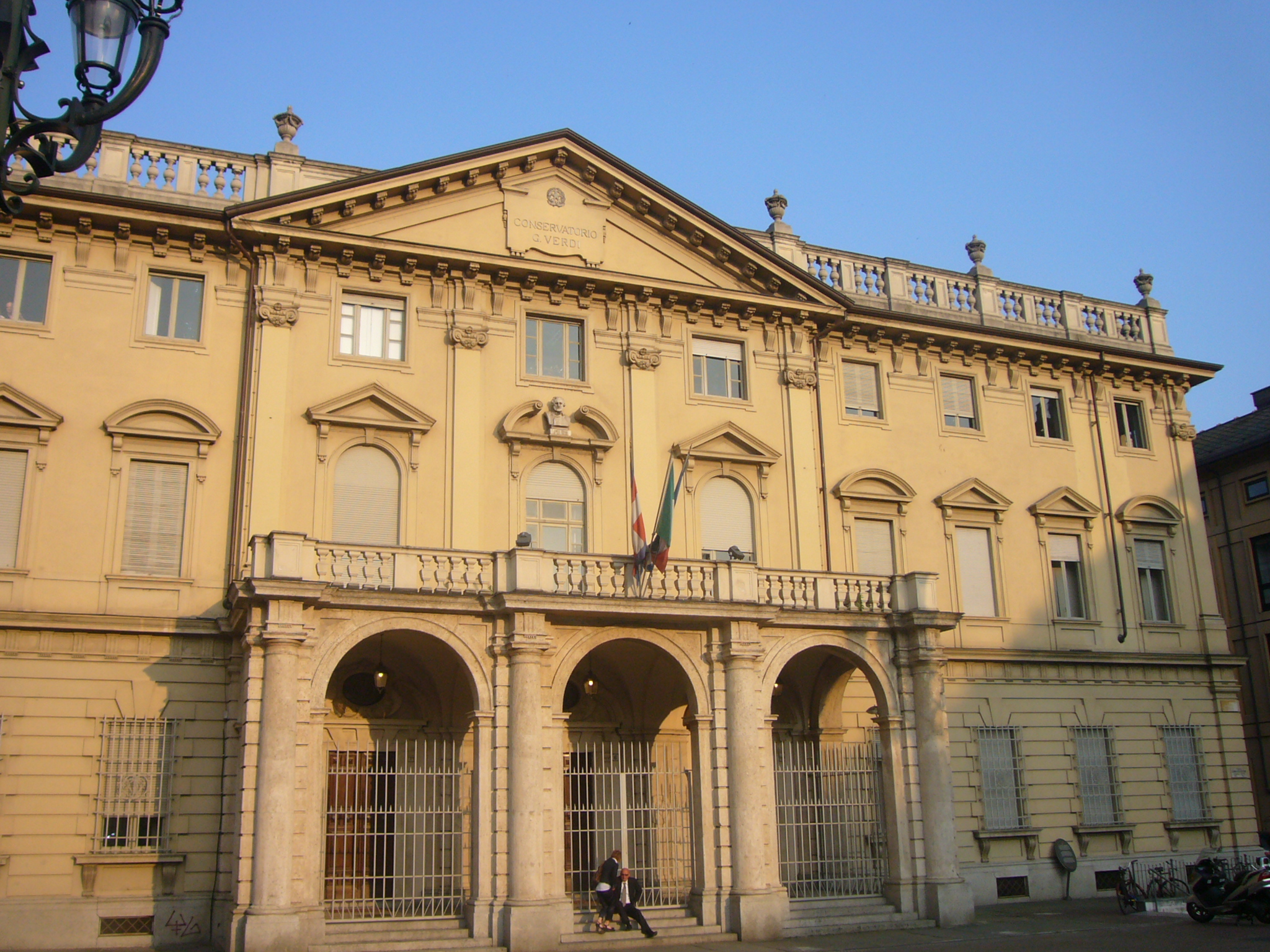 Conservatorio Verdi, Piazza Bodoni, Turin